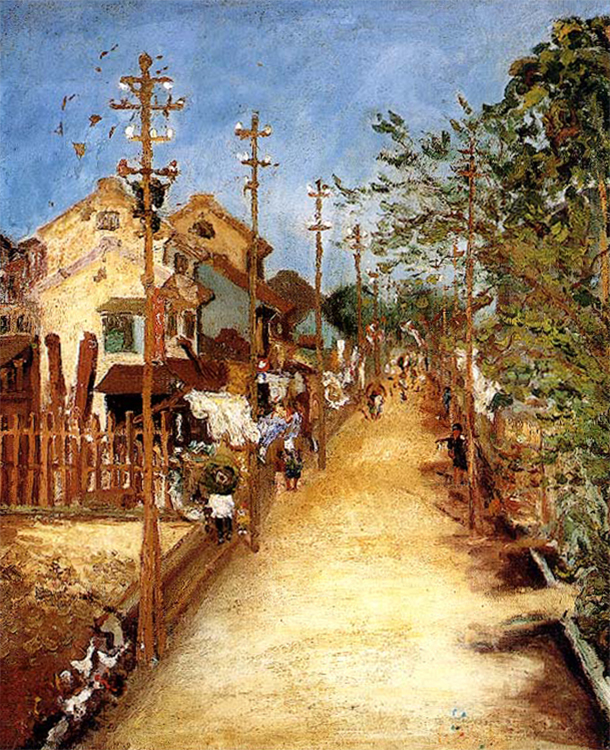 Street of Chiayi/ Chen Cheng-po/ 1926/ Canvas/ Oil painting/ 64×53cm/ Selection of Seventh "Empire Exhibition" of Japan